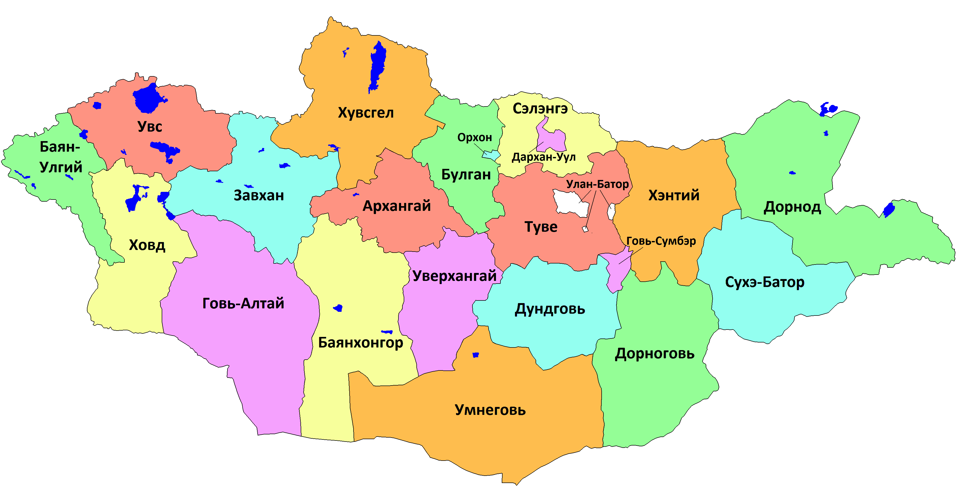 Mongolia 1-st level divisions Russian version